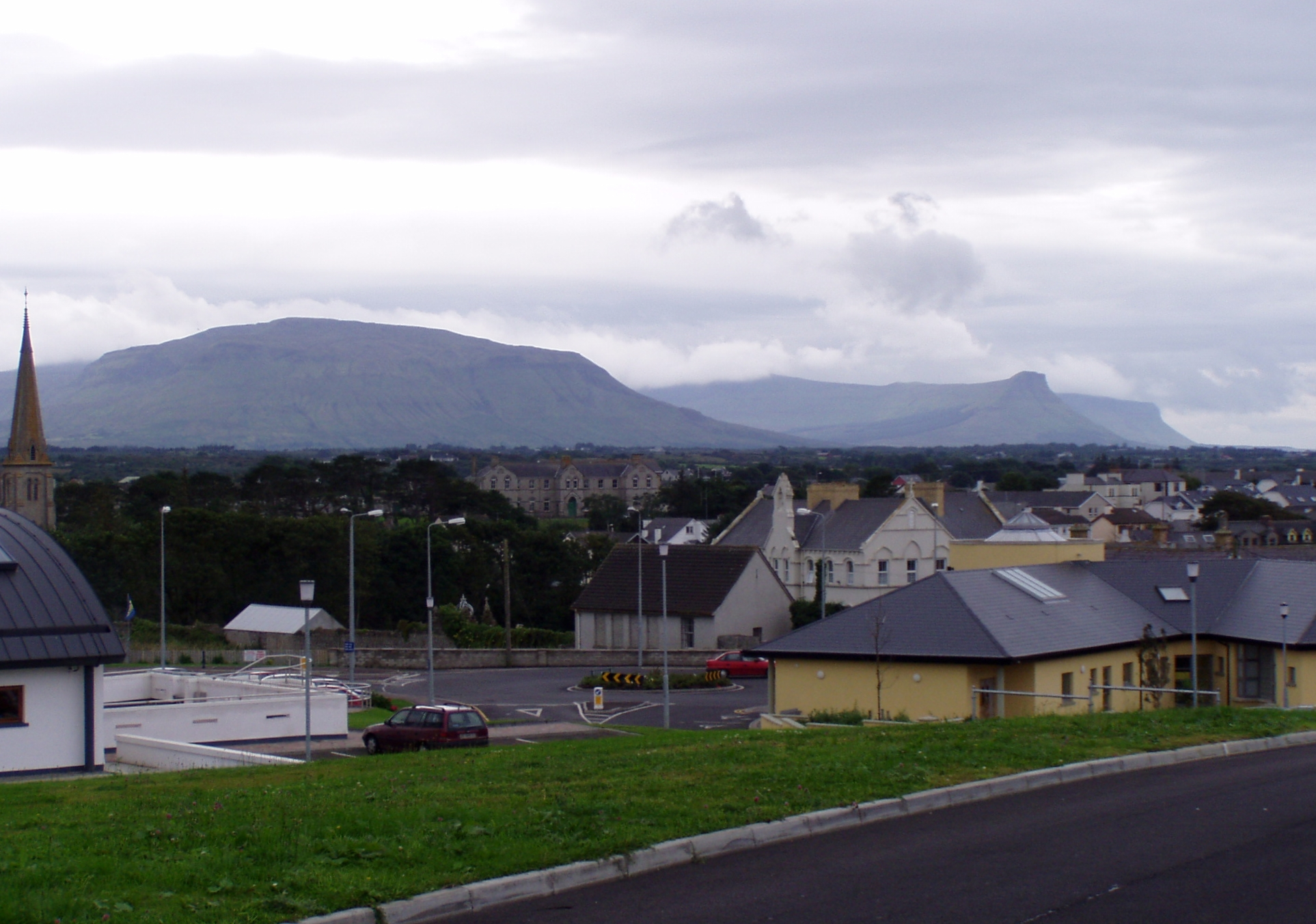 Area around library. Co Donegal, Ireland